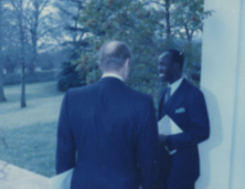 The photo contact sheet, identified as A3000 by the White House Photographic Office (WHPO), is housed at the Gerald R. Ford Presidential Library, a branch of the National Archives and Records Administration (NARA). This file is a 200 dpi photo contact sheet having images from roll of film A3000 of the August 9, 1974 - January 20, 1977 Gerald R. Ford White House Photographic Office Series A0001-A9999 and B0001-B2886 photographs. The date on the photo contact sheet is the date the roll of film was processed, not necessarily the date the photographs were taken. See table below for additional details.